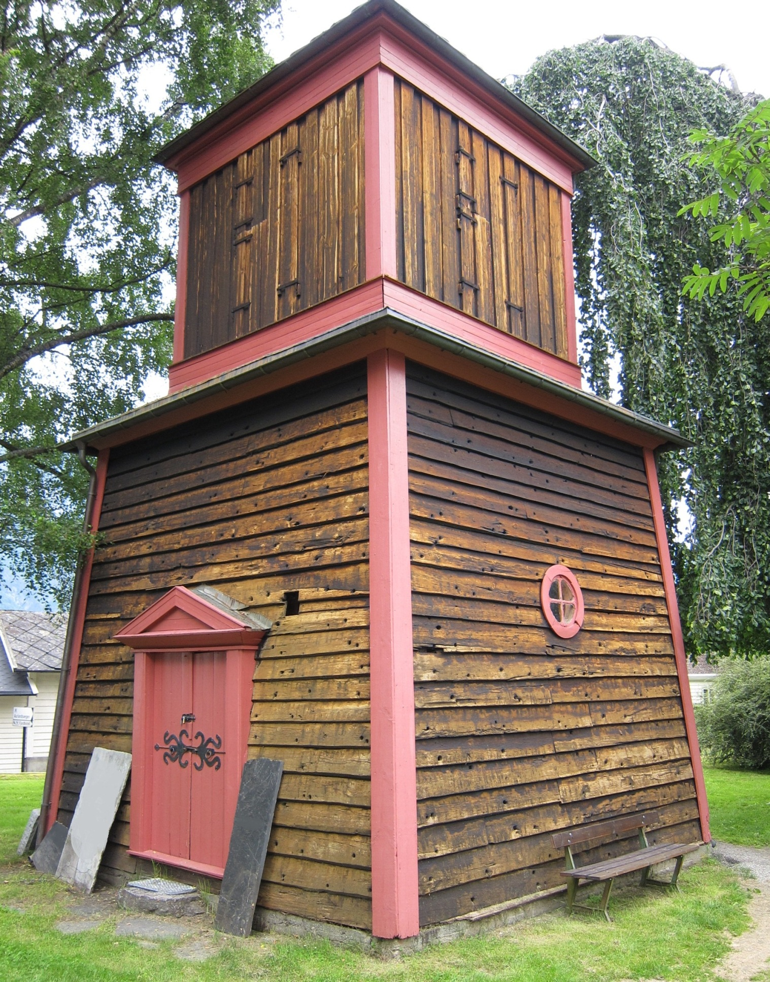 Bell steeple, Vangen church, Aurland, Sogn og Fjordane, Norway